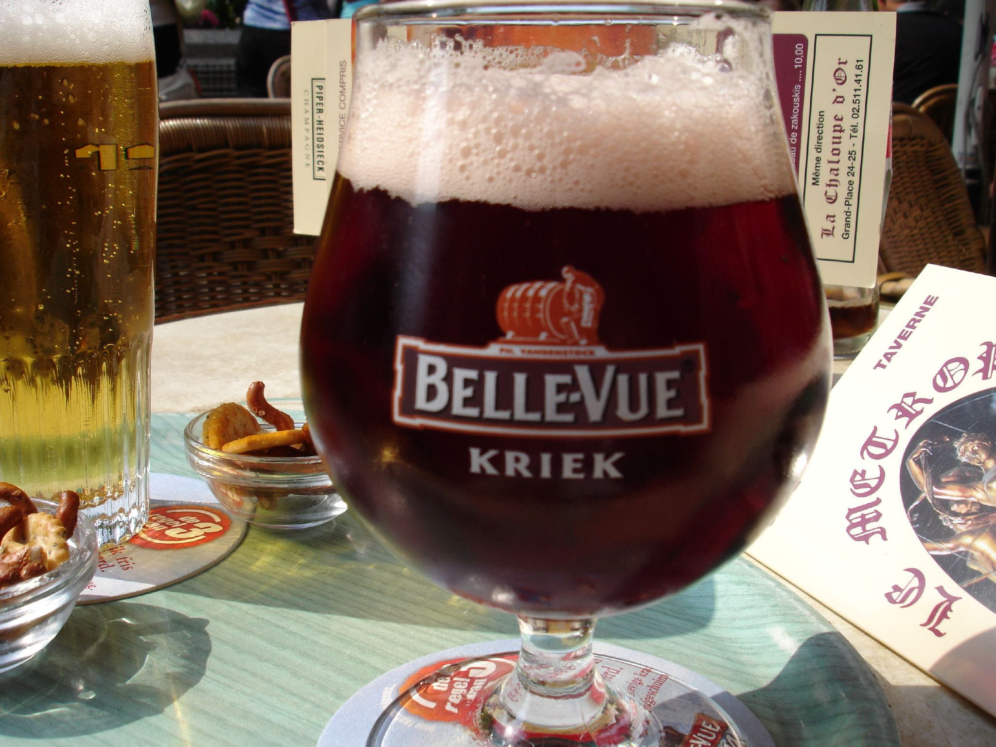 Kriek, a beer brewed with cherries